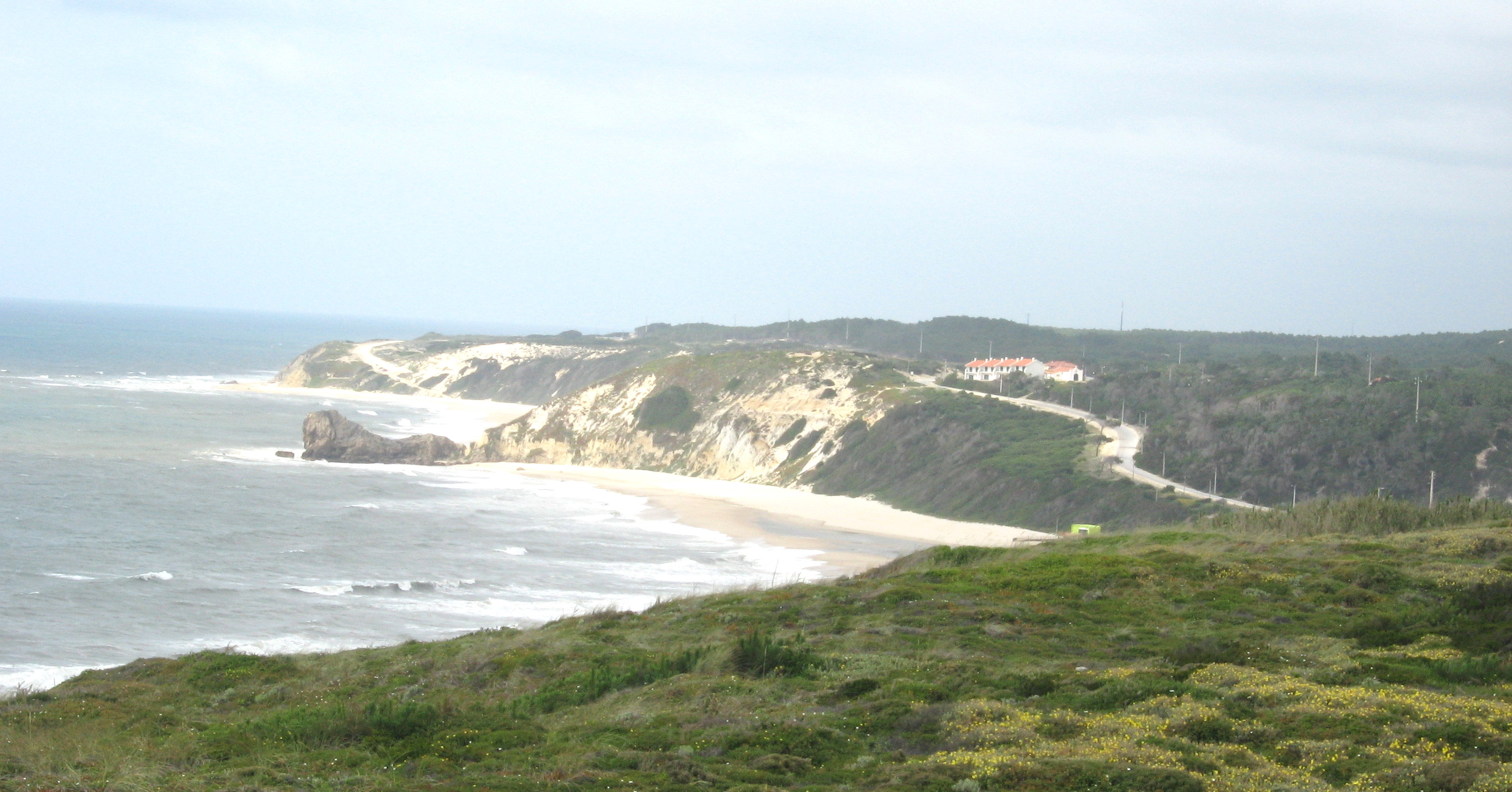 Alcobaça, Portugal, Mosteiro de Alcobaça, Coutos de Alcobaça, old city of Paredes da Vitória with harbour, disappeared until 1542, photo of the two bays